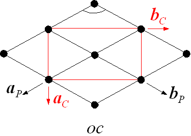 Mahlerite, drawn with OpenOffice 1.5